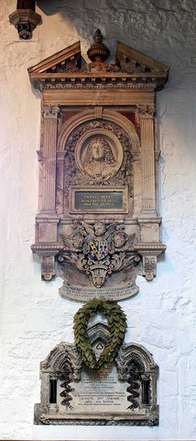 St Olave, Seething Lane, London EC3 - Wall monument - Samuel Pepys